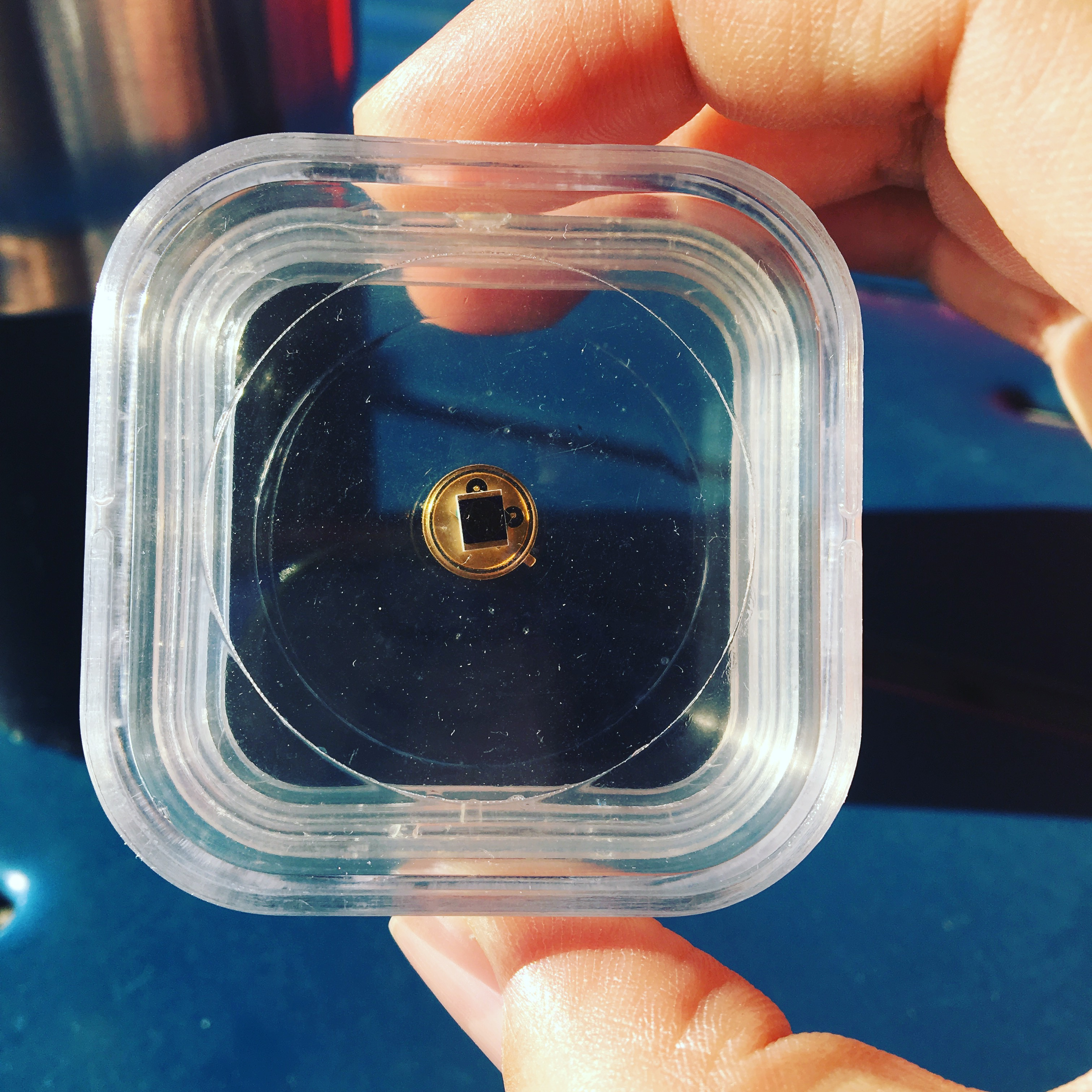 The LIGO photodiode that saw the first gravitational-waves signal on September 14, 2015. Ready to be shipped to its new home, the Nobel Museum.